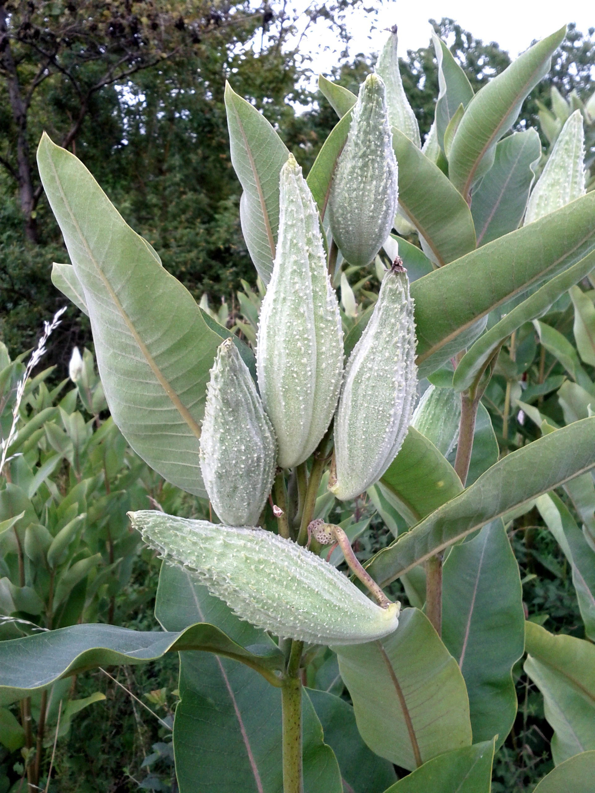 Infructescence Taxonym: Asclepias syriaca ss Fischer et al. EfÖLS 2008 ISBN 978-3-85474-187-9 Location: Marchfeldkanal, Vienna-Floridsdorf - ca. 160 m a.s.l. Habitat: meadows